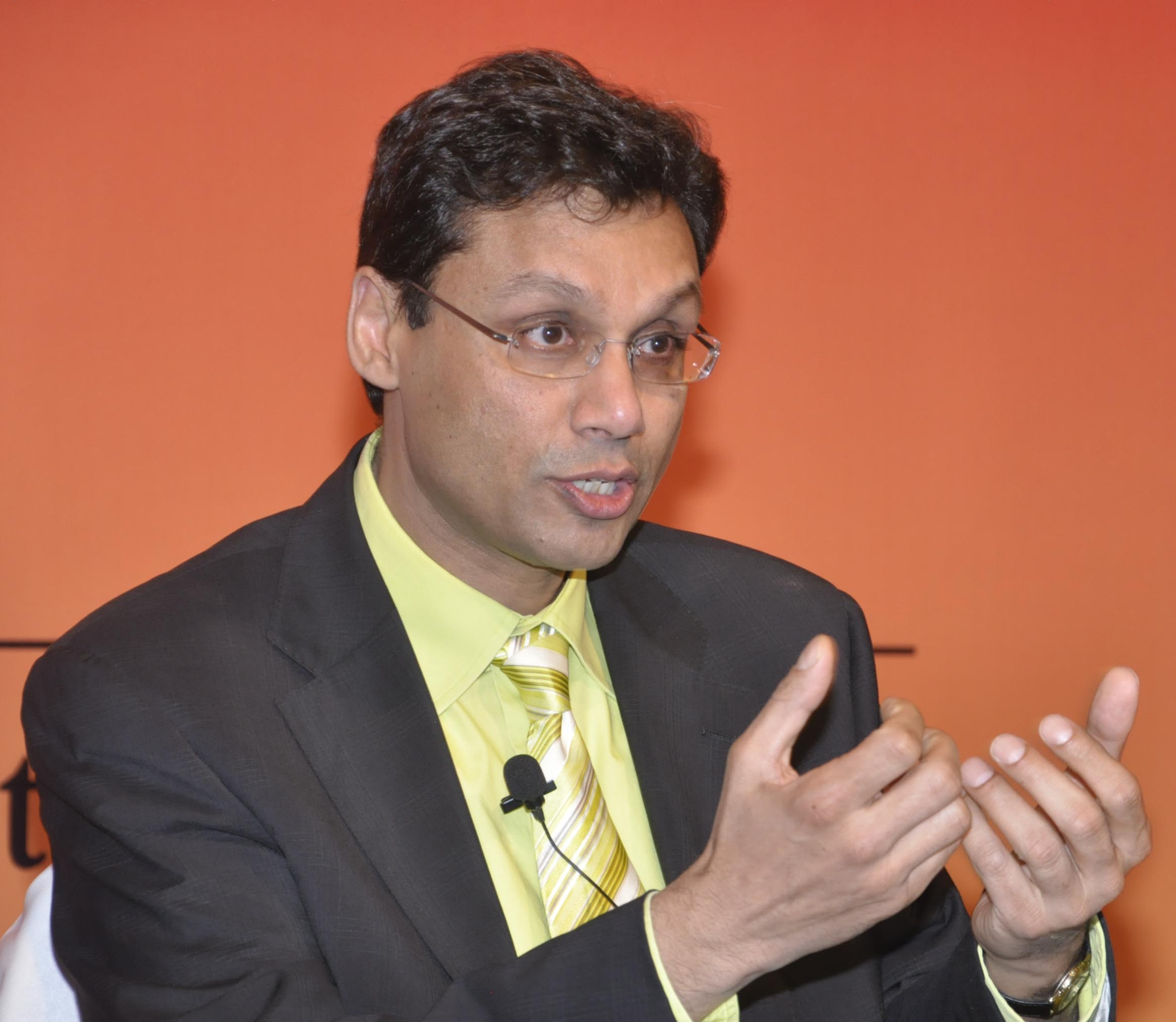 Prof. Nirmalya Kumar of London Business School at SPJIMR Academic Conclave 2011.